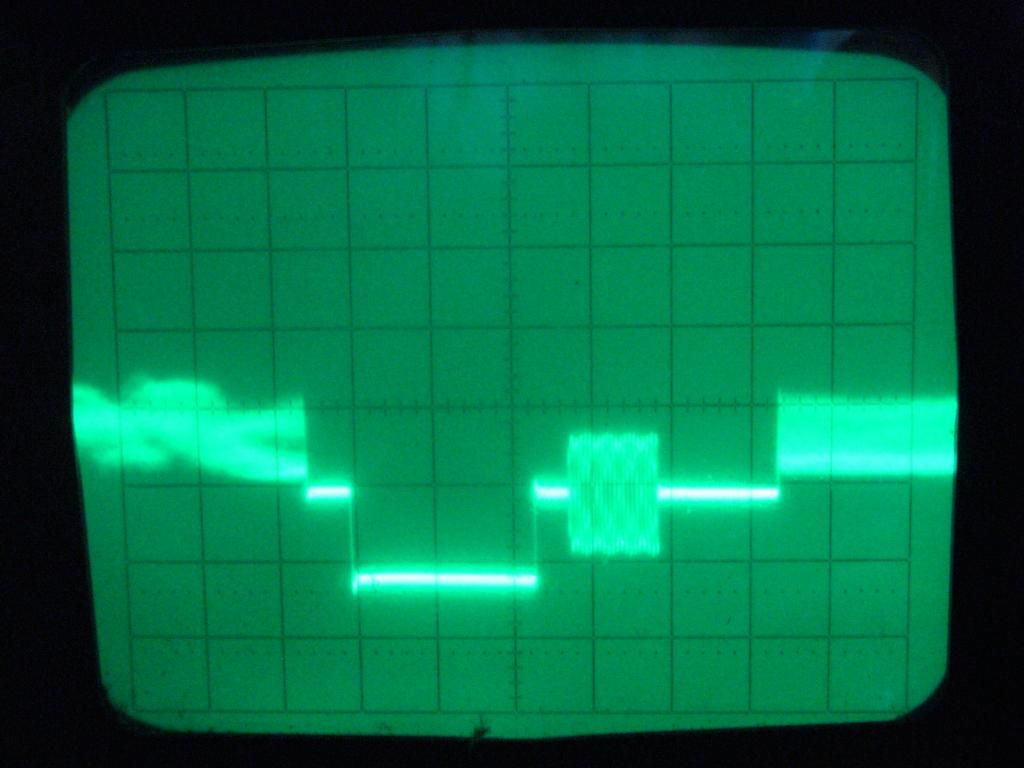 PAL videosignal. Shows end of a scanline, front porch, sync pulse, back porch with color burst, and beginning of the next scanline.